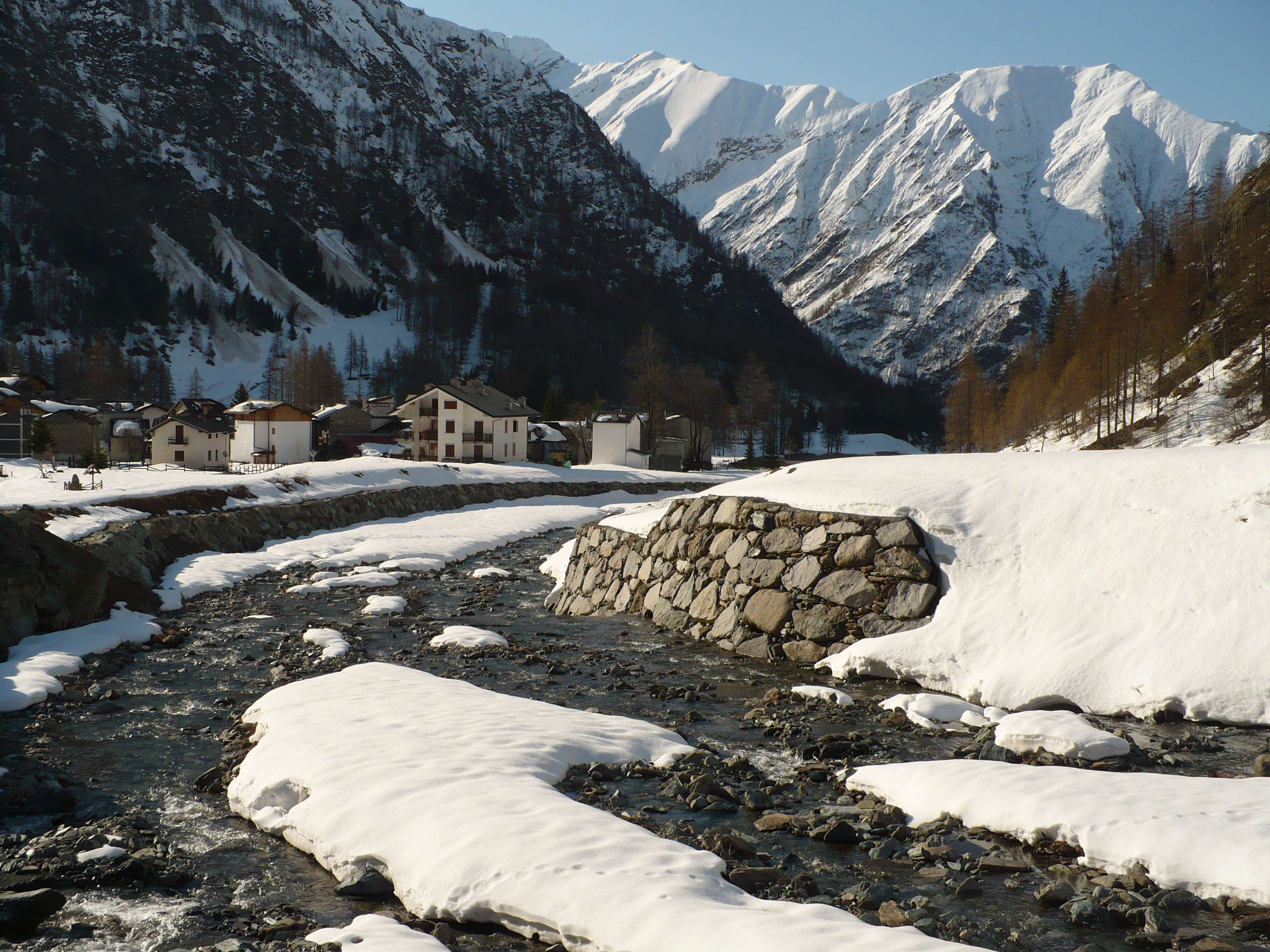 Piamprato, Valprato Soana, Soana valley, Piedmont, Italy